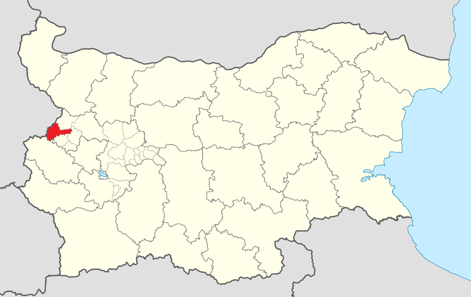 Location map of Dragoman Municipality within Bulgaria and Sofia province